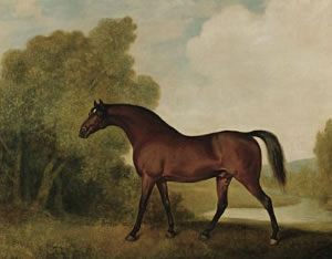 "Ambrosio, a bay stallion, the property of Thomas Haworth" by George Stubbs (1724-1806). Artist dead for 207 years.